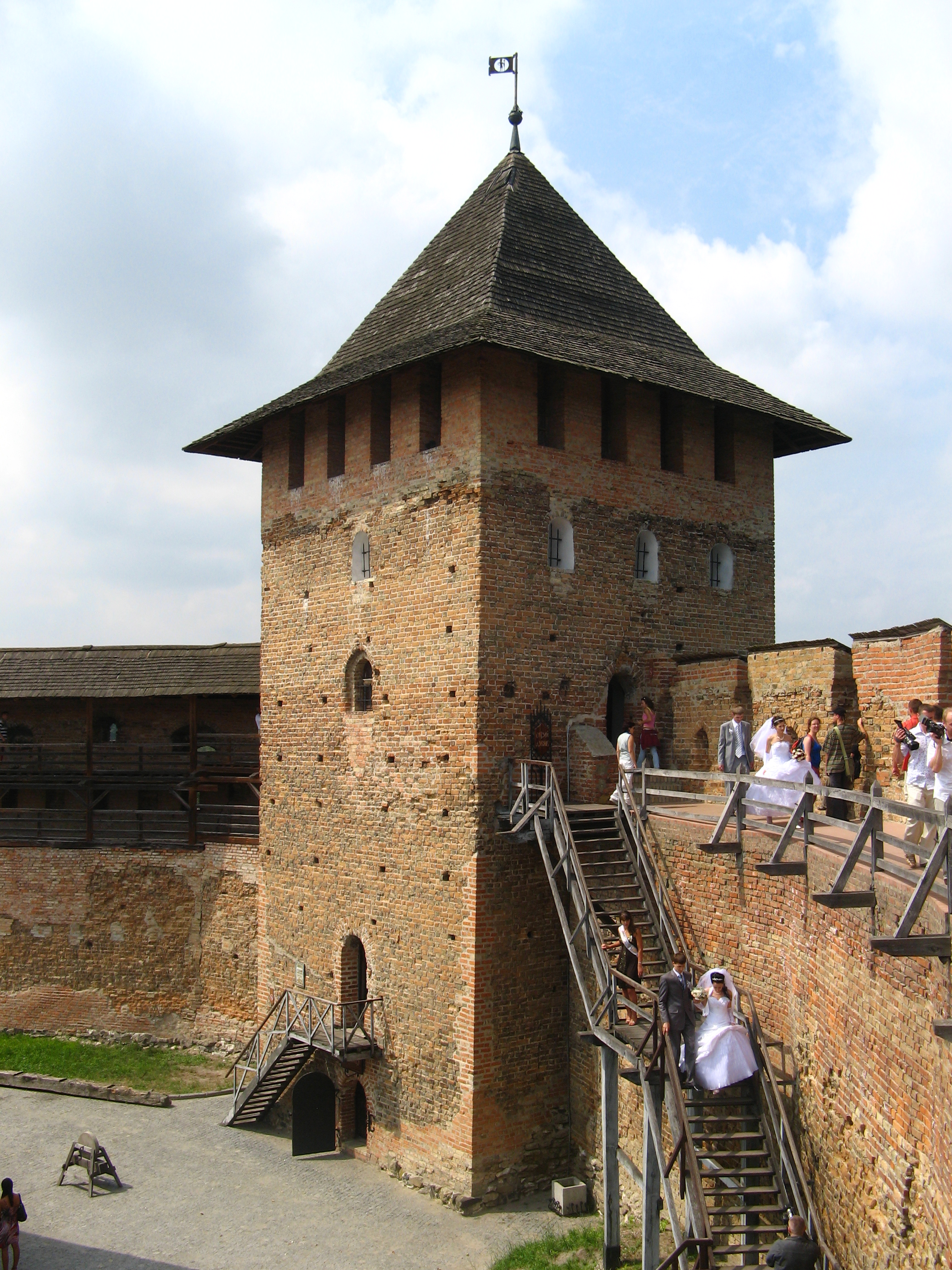 Łuck Castle